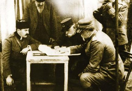 Esad Pashë Toptani on Salonika front.